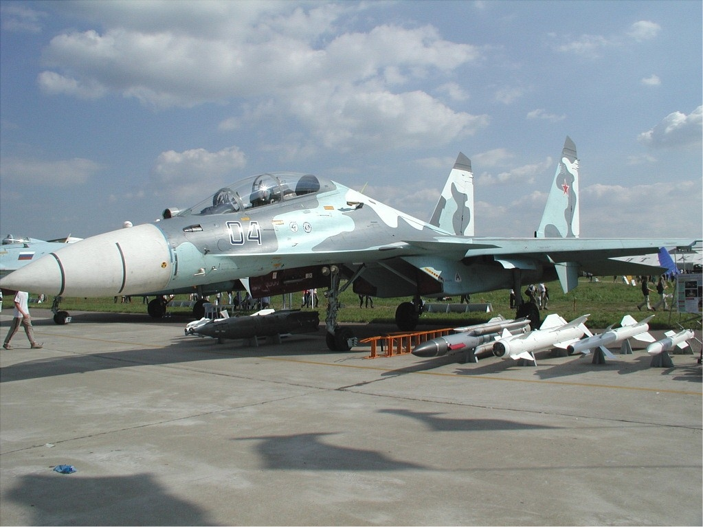 Russian Air Force Su-30MKM